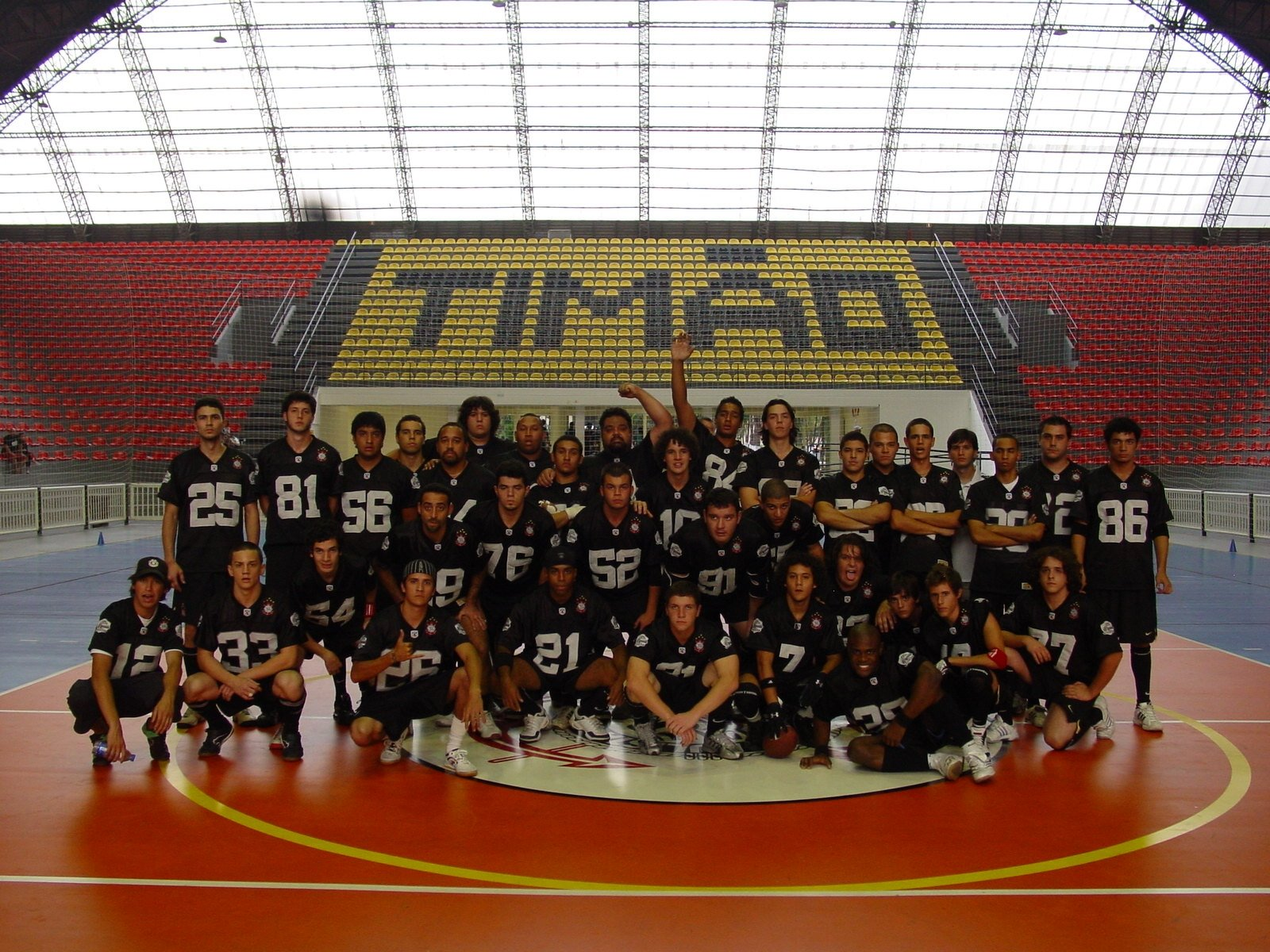 Roster Corinthians Steamrollers